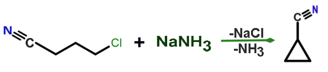 Cycloproyl cyanide synthesis